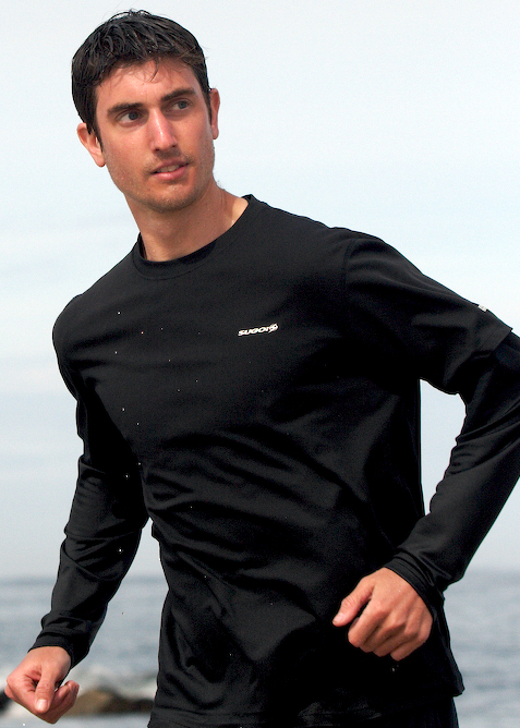 Brendan Brazier, Venice Beach, CA